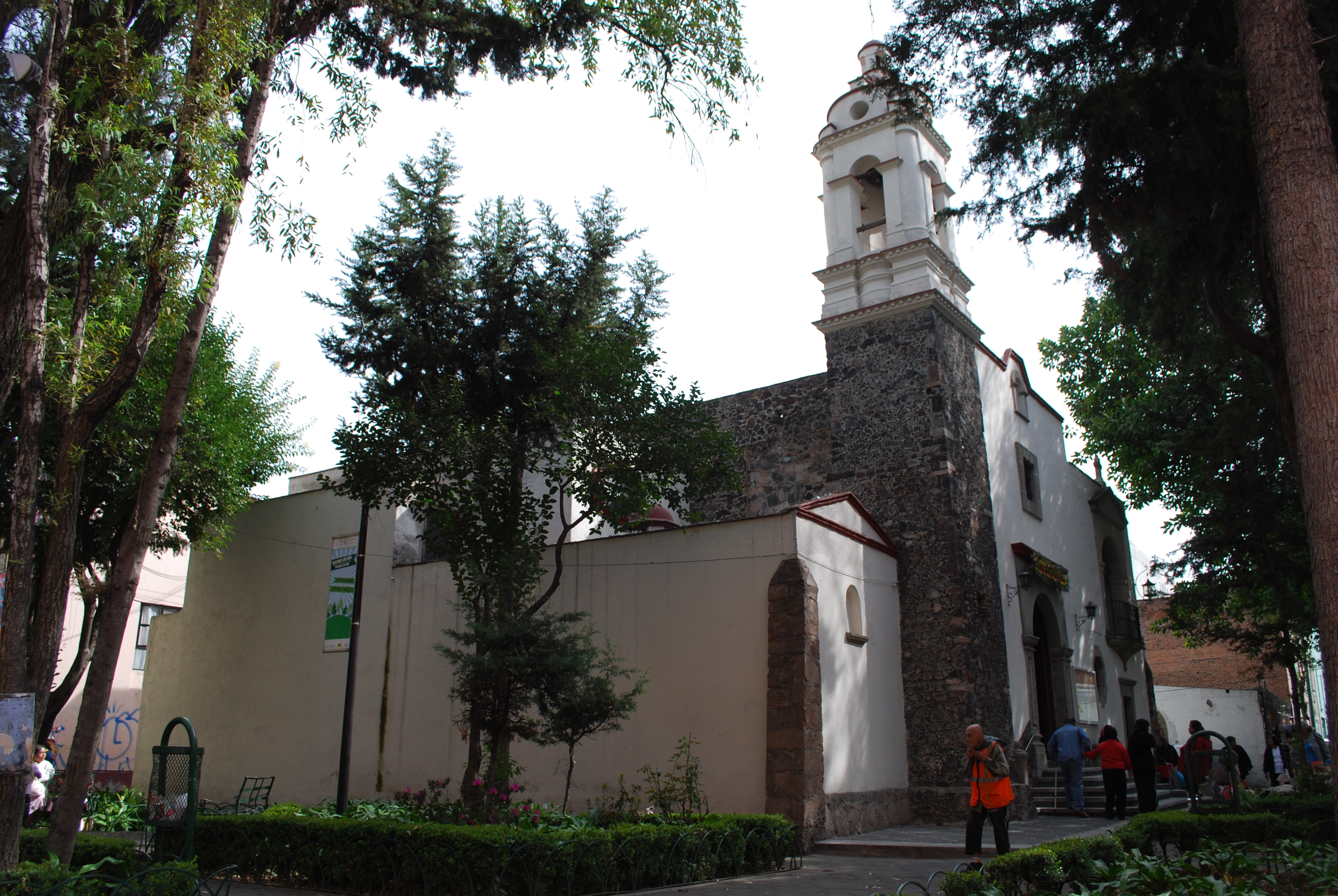 View of the Rectoria San Francisco Javier in La Romita section of Colonia Roma, Mexico City